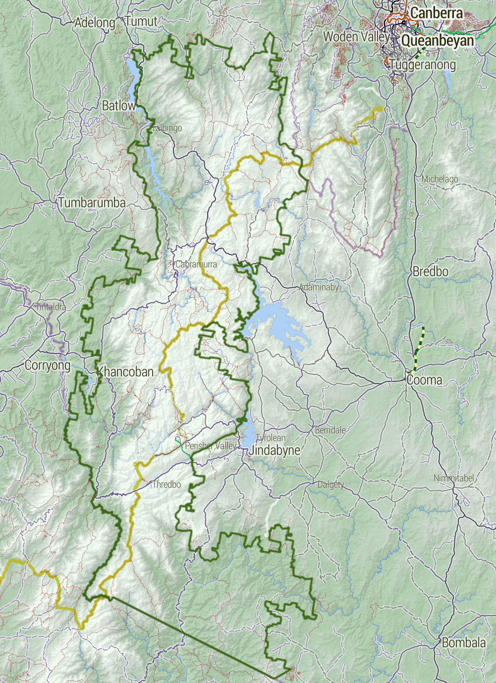 Map of Kosciuszko National Park. Data (including park outline) is OpenStreetMap. Cartography by me, Steve Bennett, using TileMill.